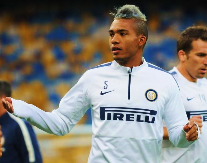 Juan Jesus warming up before Inter vs Metalist Kharkiv match (UEFA Europa League), september 2014.